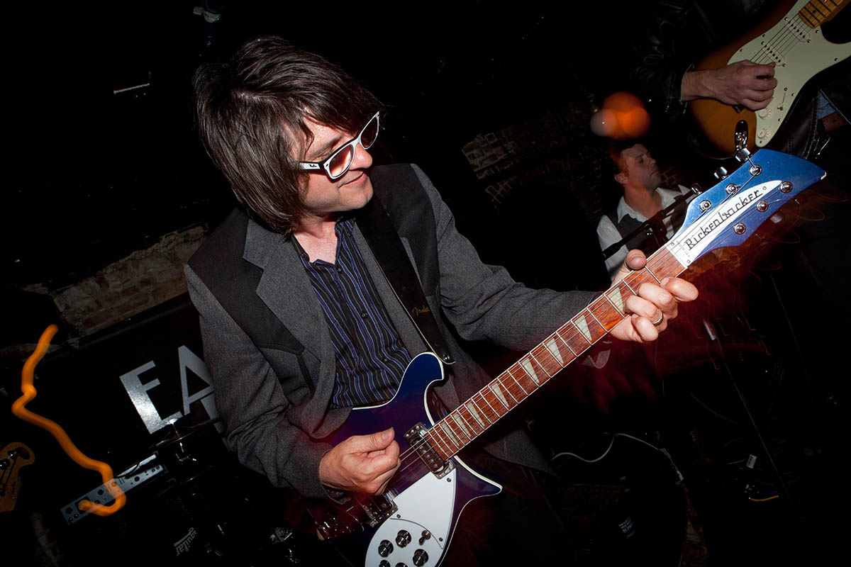 Blue Skies For Black Hearts at East End, Portland, OR. May 17, 2013.